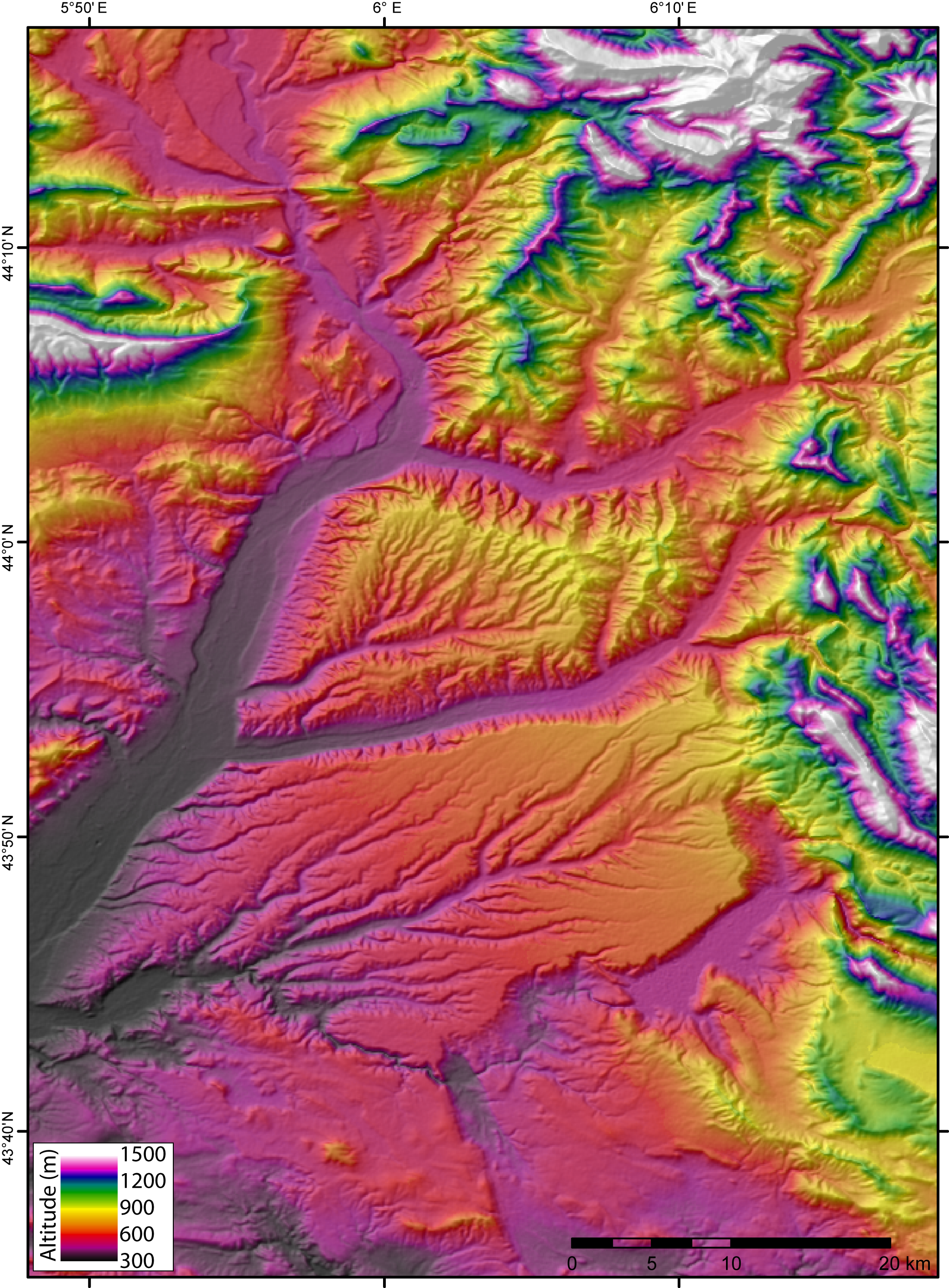 DEM of the Valensole Plateau (Alpes de Hautes Provence, France) made by Jide from the SRTM dataset.